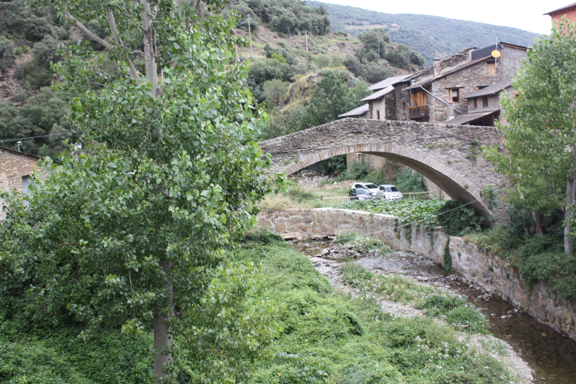 Pont de Castellbò